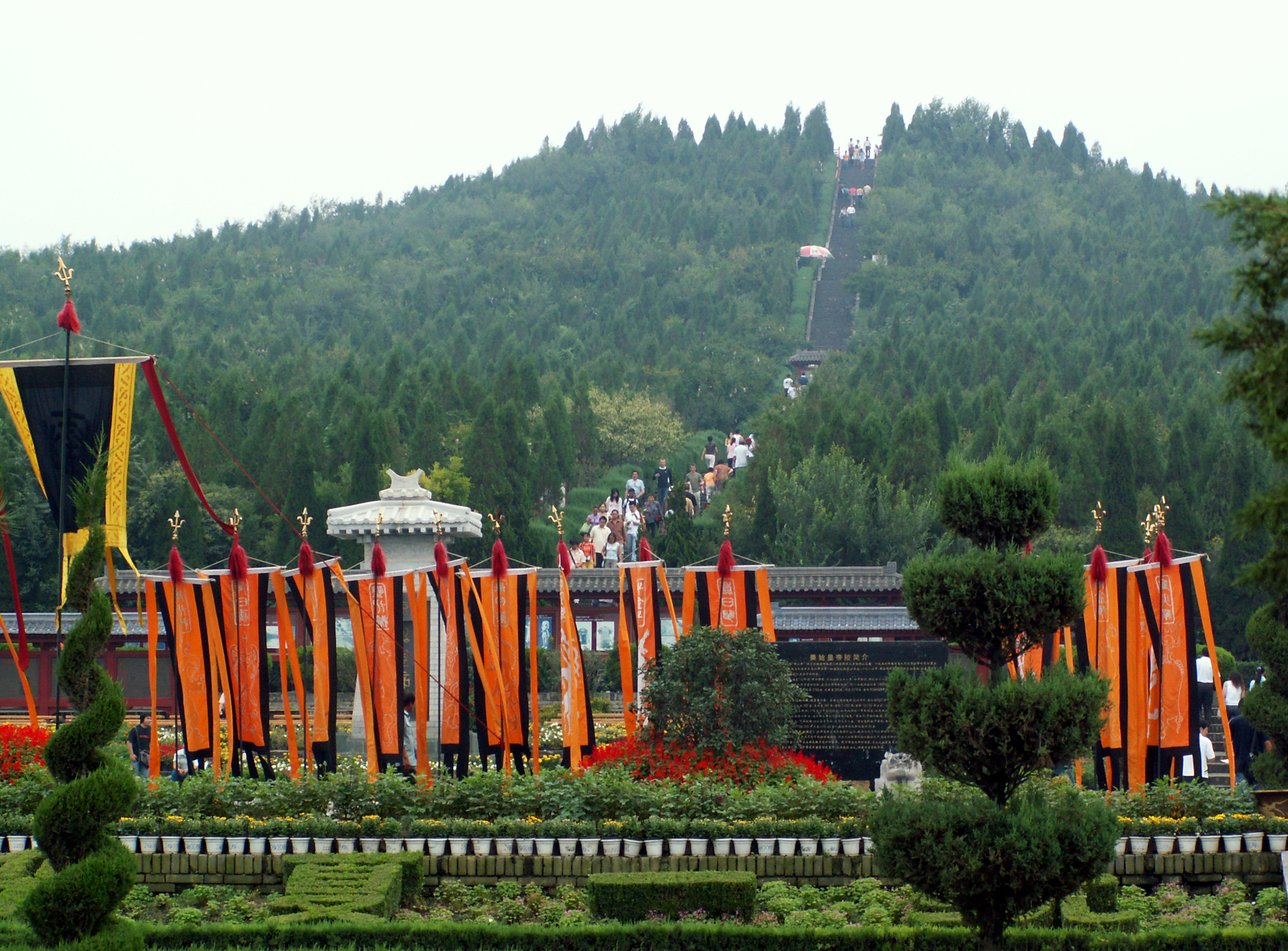 (Tomb of Emperor Qin Shi Huang) 34º 22′ 54″ N 109º 15′ 14 W 陕西西安秦始皇陵